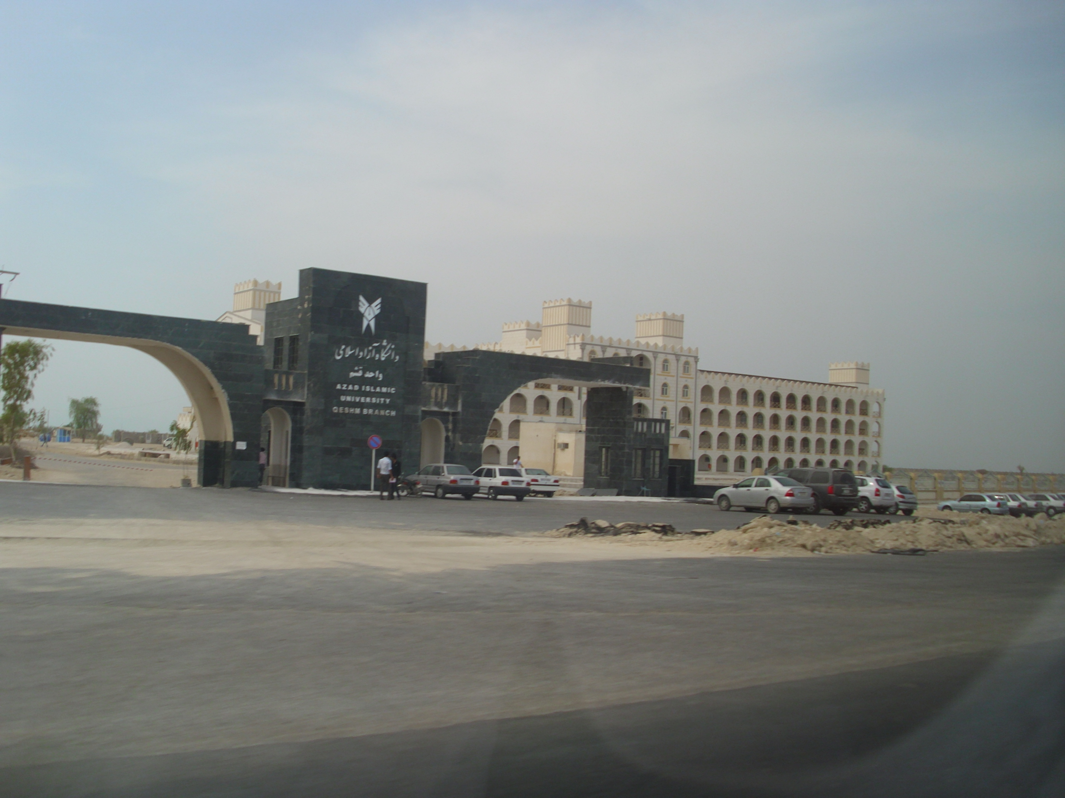 Azad Islamic University – Qeshm branch, Qeshm Island, Iran.